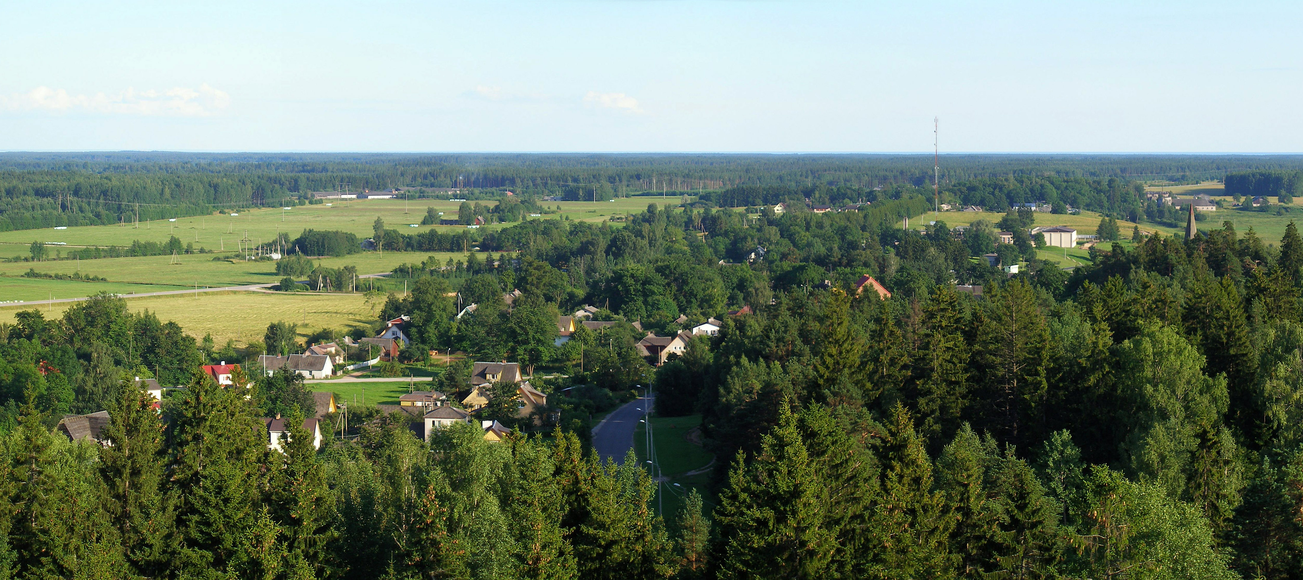 View of Iisaku, Estonia, from the lookout at Tärivere Hill.